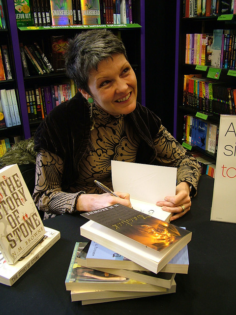 N. M. Browne at book signing